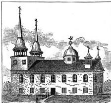 Ste Anne's RC Church, constructed 1818